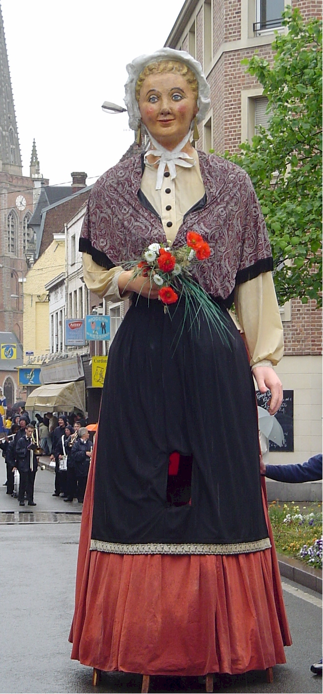 Toria giant from Hazebrouck